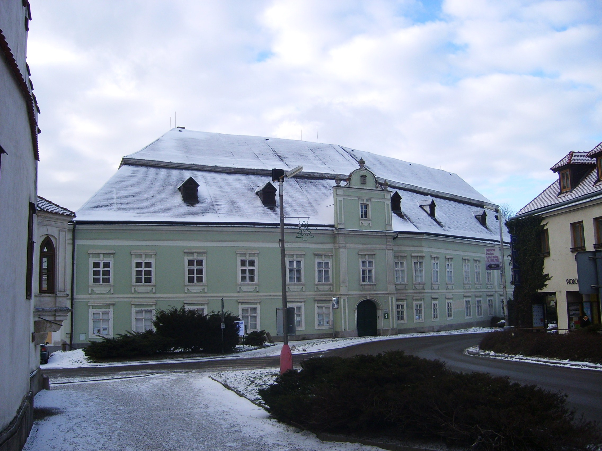 Former palace in Moravské Budějovice, Czech Republic. It nowadays houses a craft museum.